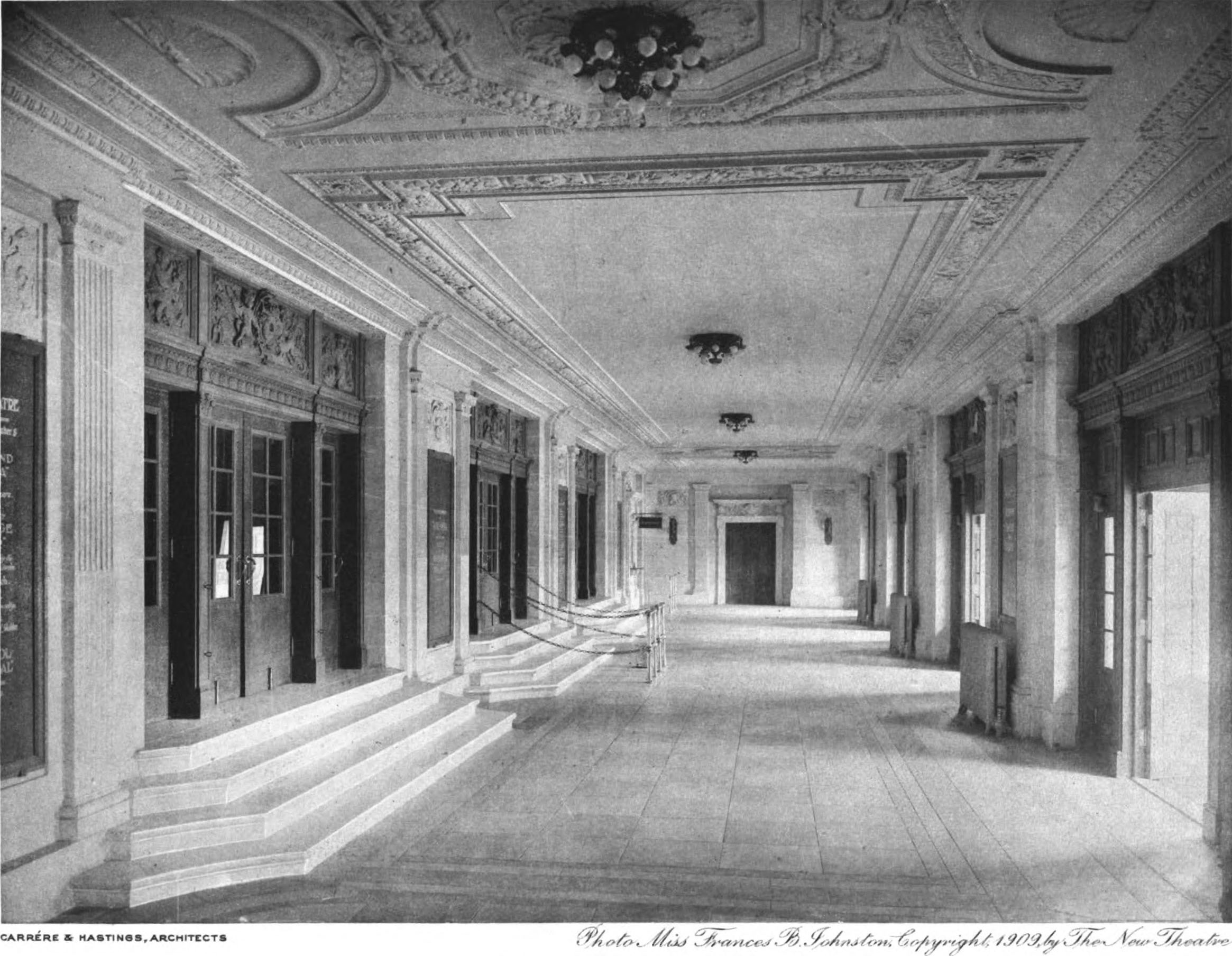 Ground floor main vestibule of the New Theatre on Central Park West in New York City.